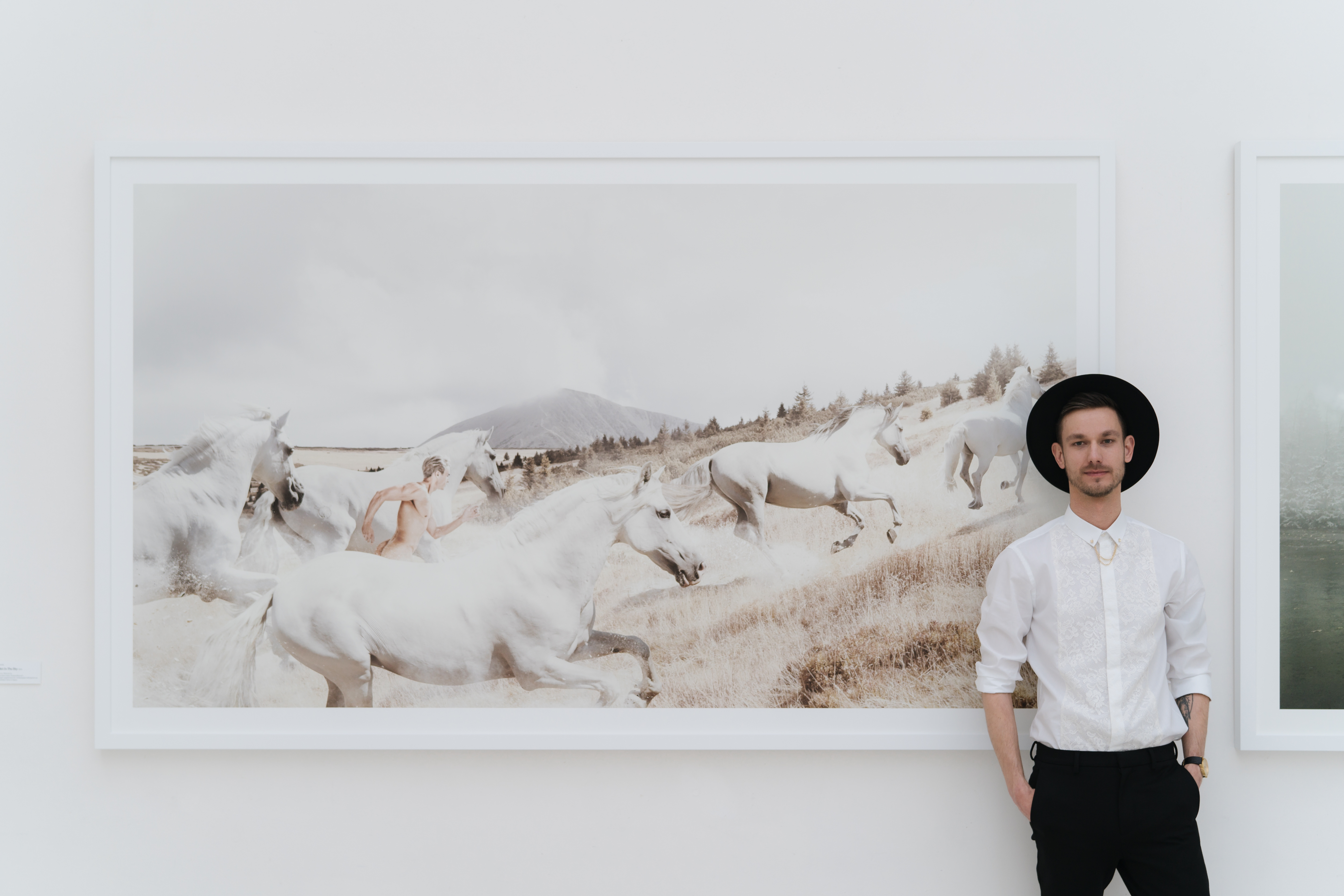 I Am Nature, Martin Stranka, Dechem, March 2020, Gallery Mánes, Prague